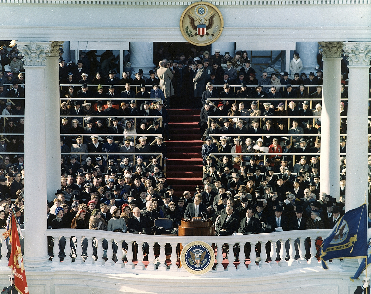 Inaugural Address of John F. Kennedy, 35th President of the United States. Washington, D. C., 20 January 1961. Please credit "U. S. Army Signal Corps photograph in the John F. Kennedy Presidential Library and Museum, Boston".